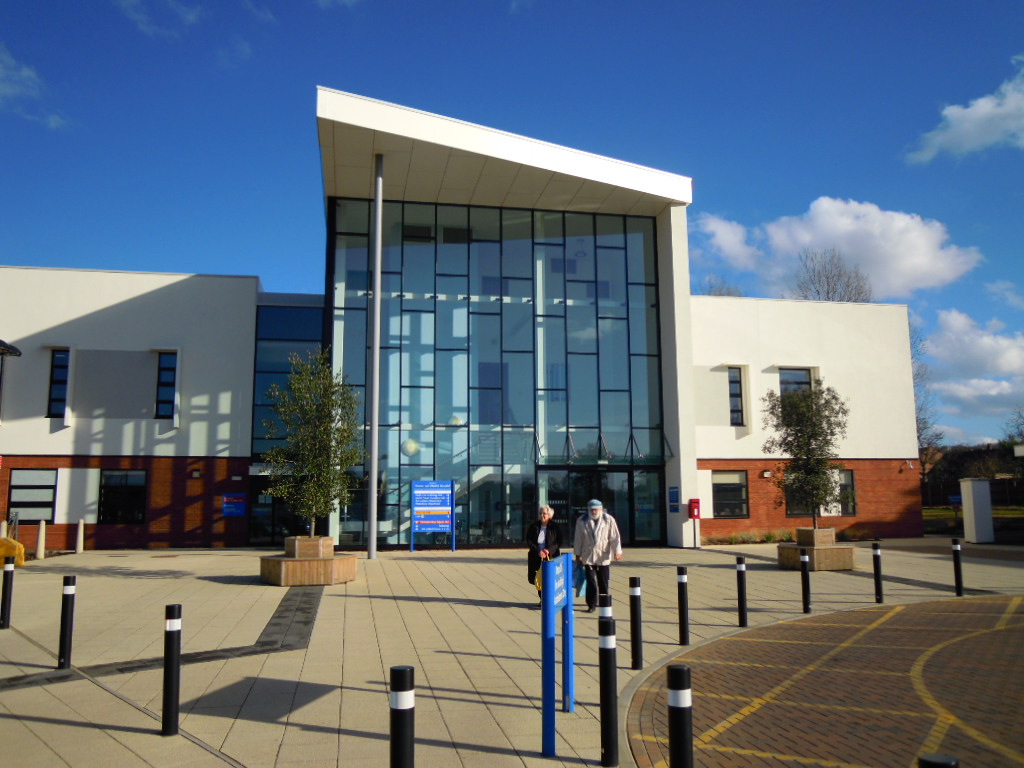 The main reception entrance to the new Cromer Hospital which opened in 2012